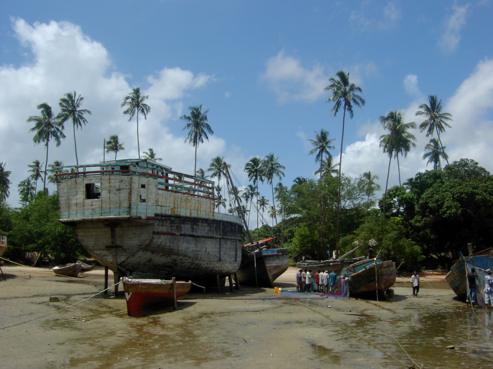 Dhow construction and repair in Zanzibar, near Mtoni, boat, dhows, Tanzania